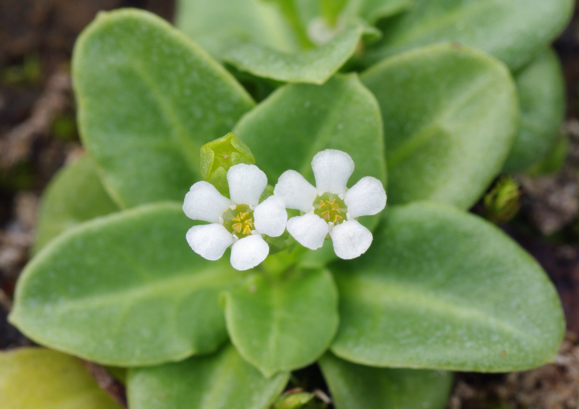 Close-up of the salt-tolerating plant Samolus valerandi ssp. valerandi. Each blossom has a diameter of approx. 3 mm.